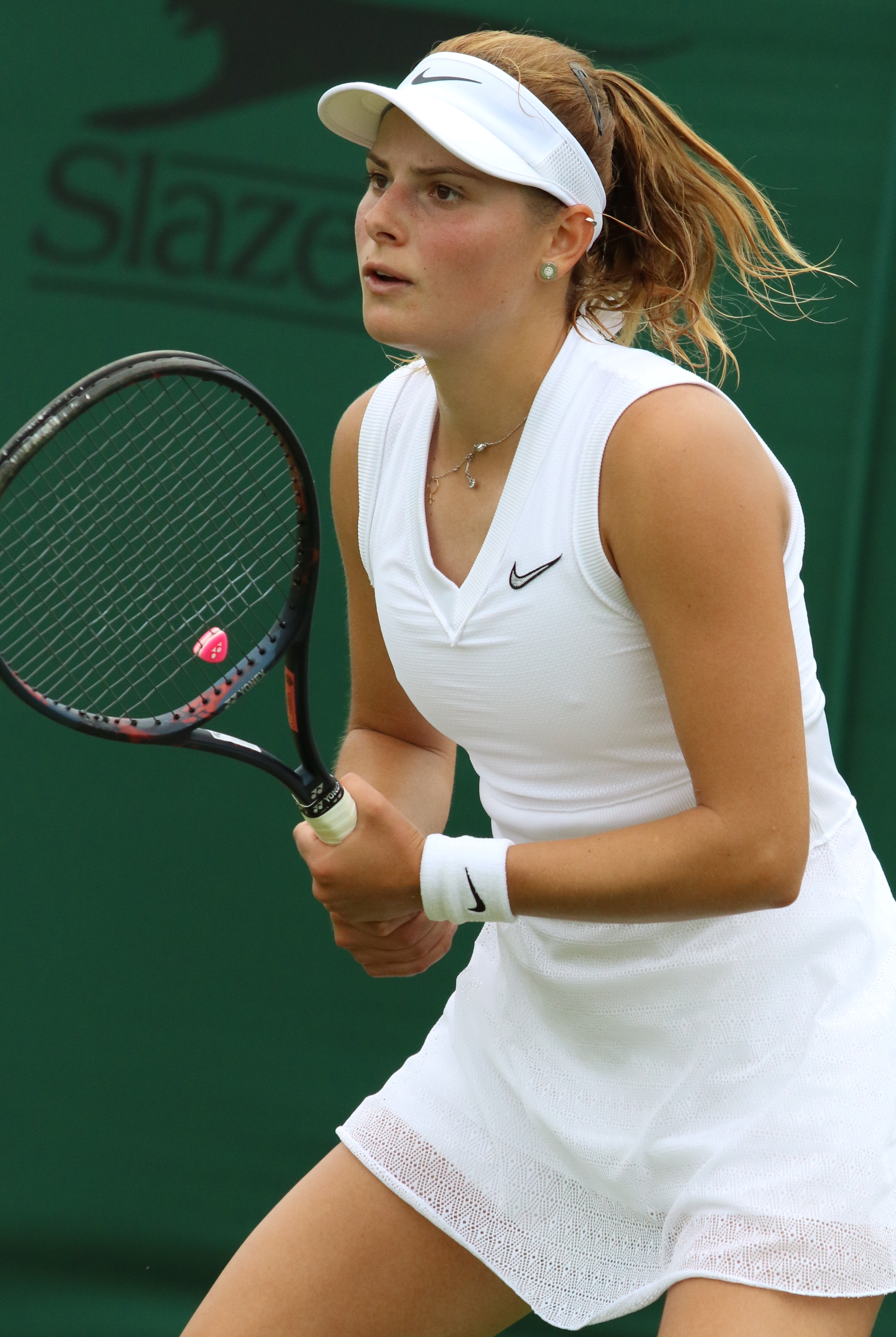 2019 Wimbledon Qualifying Tournament.